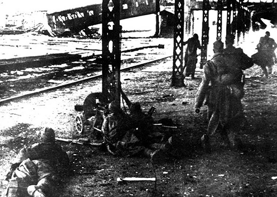 Soldiers of the 158th Rifle Division's 881st Rifle Regiment fighting in the area of the Vitebsk railway station